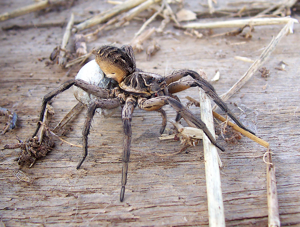 Wolf Spider with her egg sac